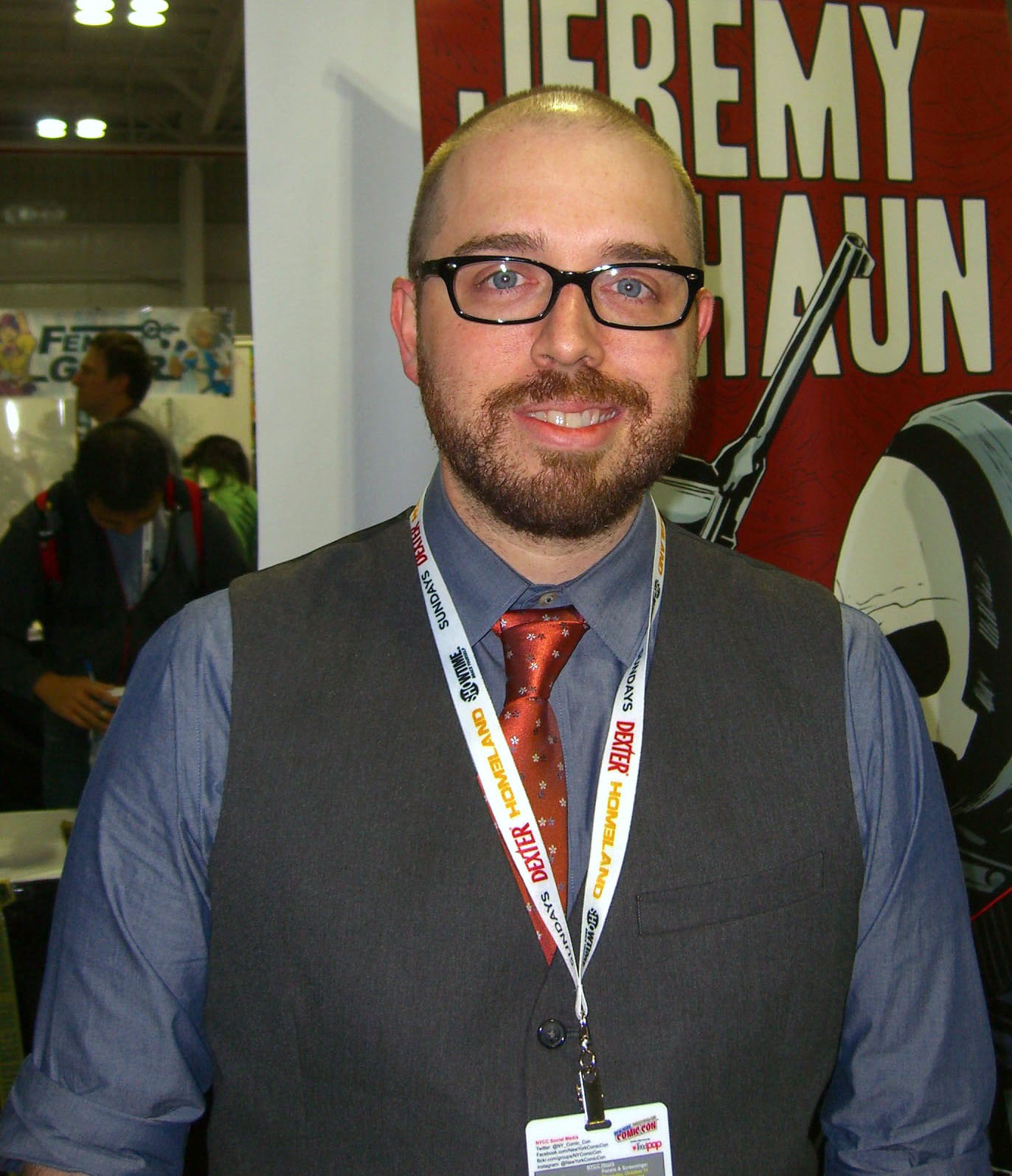 Comics creator Jeremy Haun at the DC Comics booth on Day 2 of the 2012 New York Comic Con, Friday October 12, 2012 at the Jacob K. Javits Convention Center in Manhattan. This photo was created by Luigi Novi. It is not in the public domain, and use of this file outside of the licensing terms is a copyright violation.